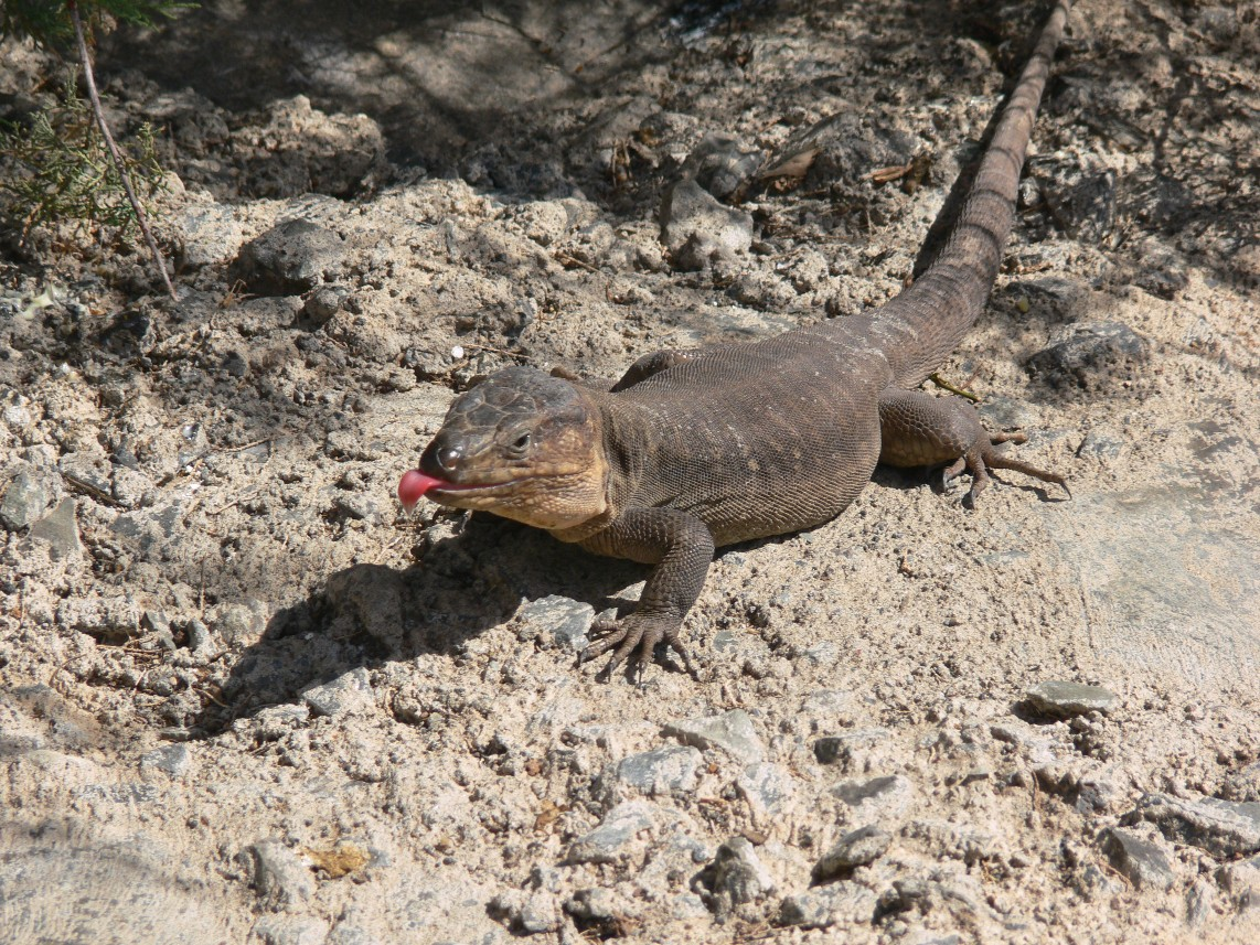 Gran Canaria Giant Lizard,Photoed near the Maspalomas Dunes, 2010